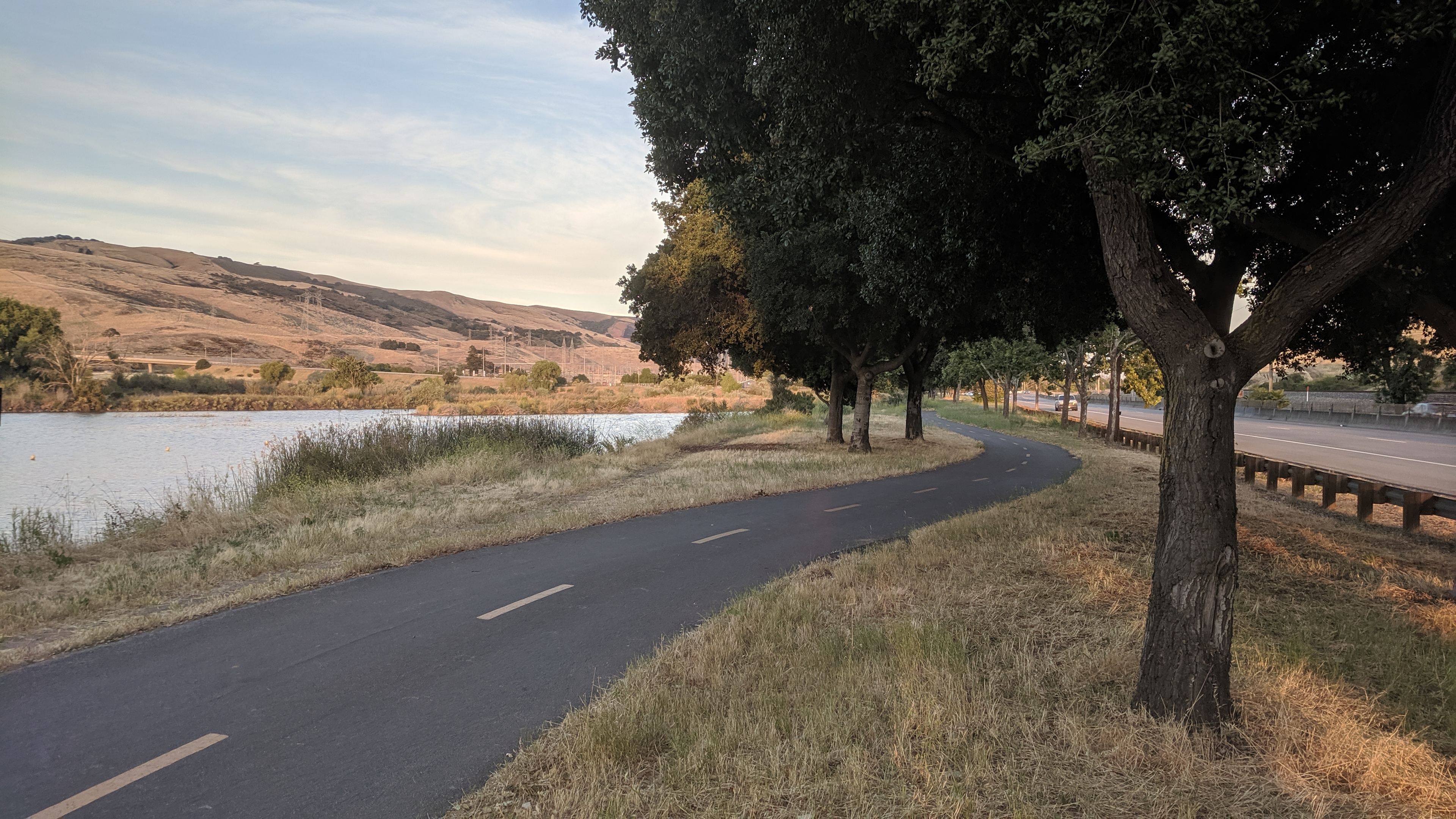 The Coyote Creek Trail between Coyote Creek Lake and Monterey Road in South San Jose